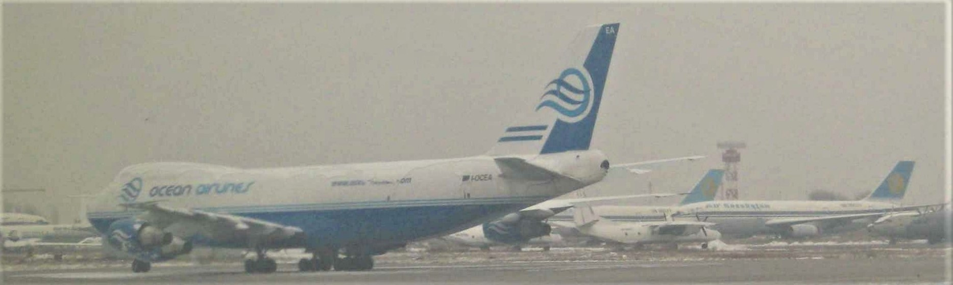 Boeing 747 of Ocean Airlines in Almaty International Airport, Kazakhstan. Tail number is I-OCEA